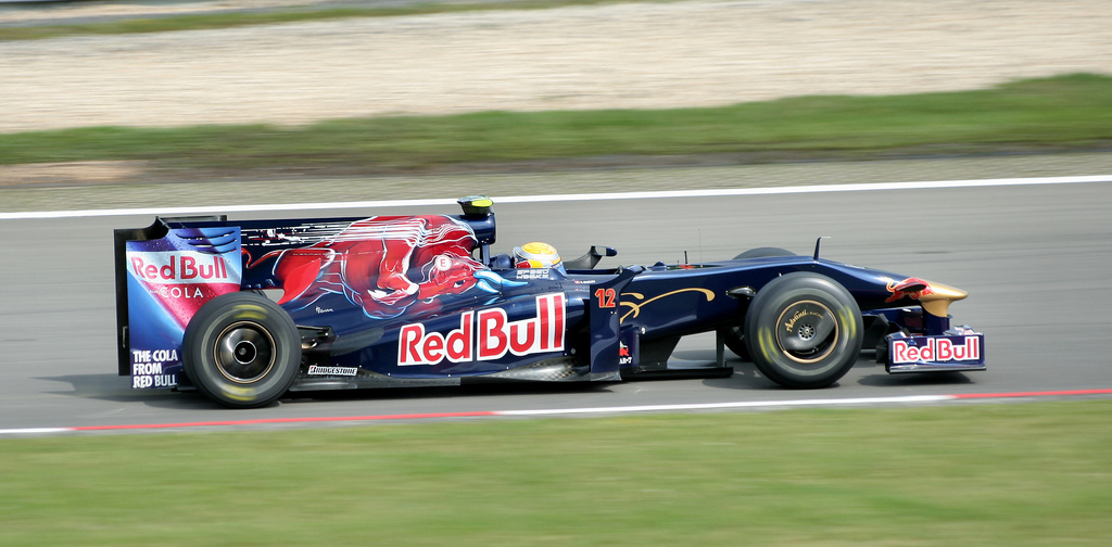 Sébastien Buemi driving for Scuderia Toro Rosso at the 2009 German Grand Prix.